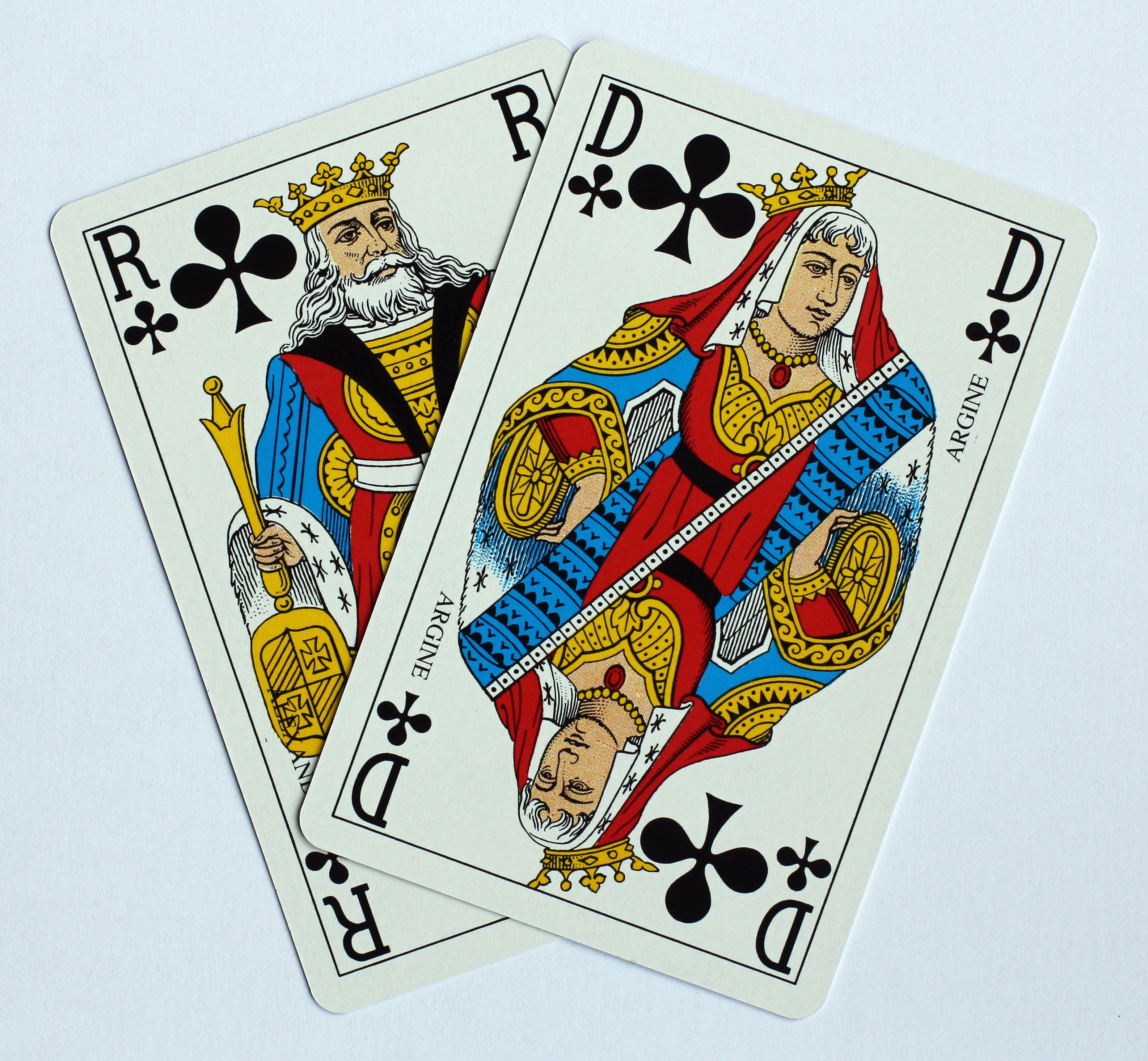 The King and Queen of Clubs from a French-pattern, French-suited pack